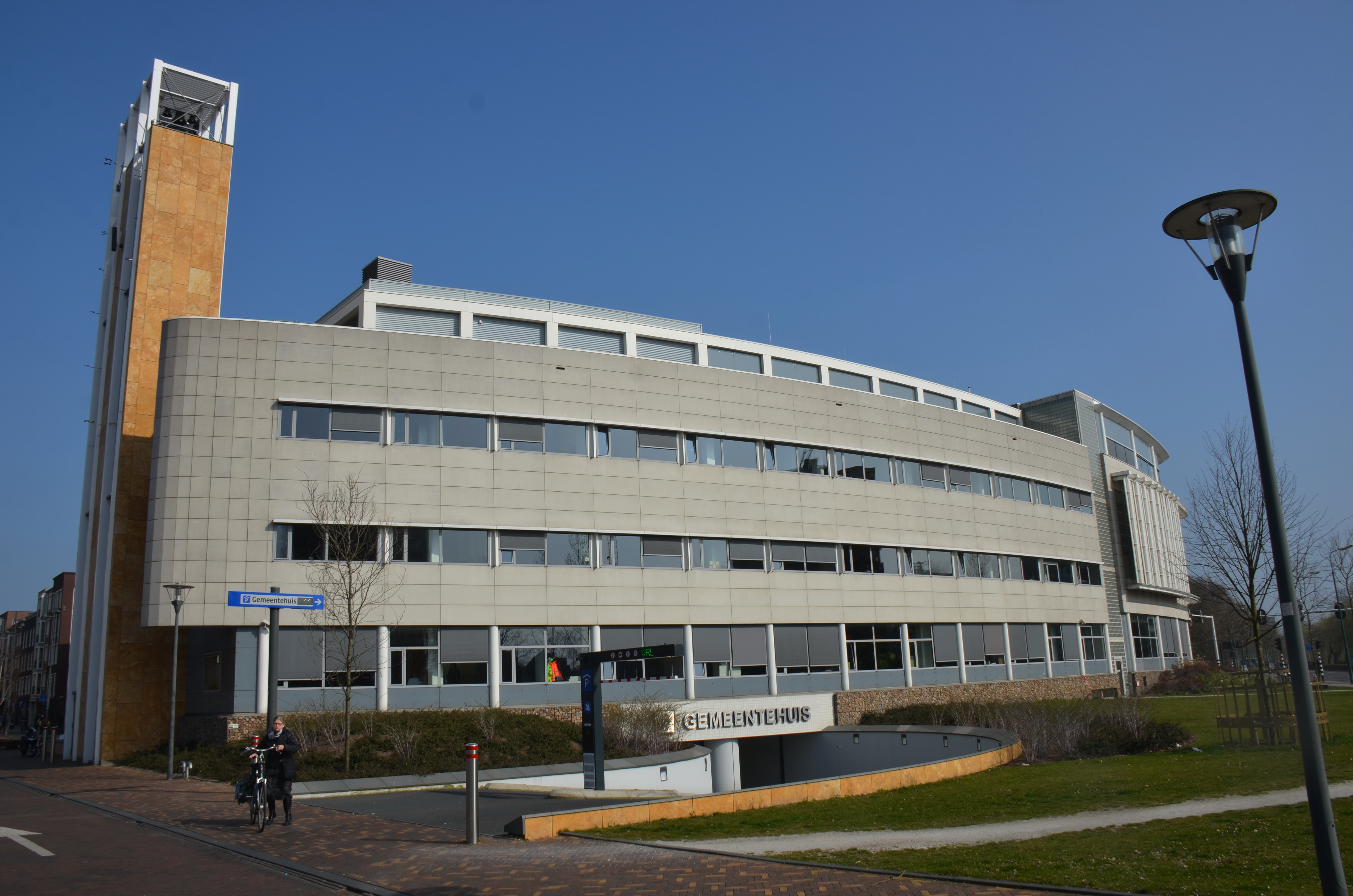 New townhall of Veenendaal at 11 March 2014